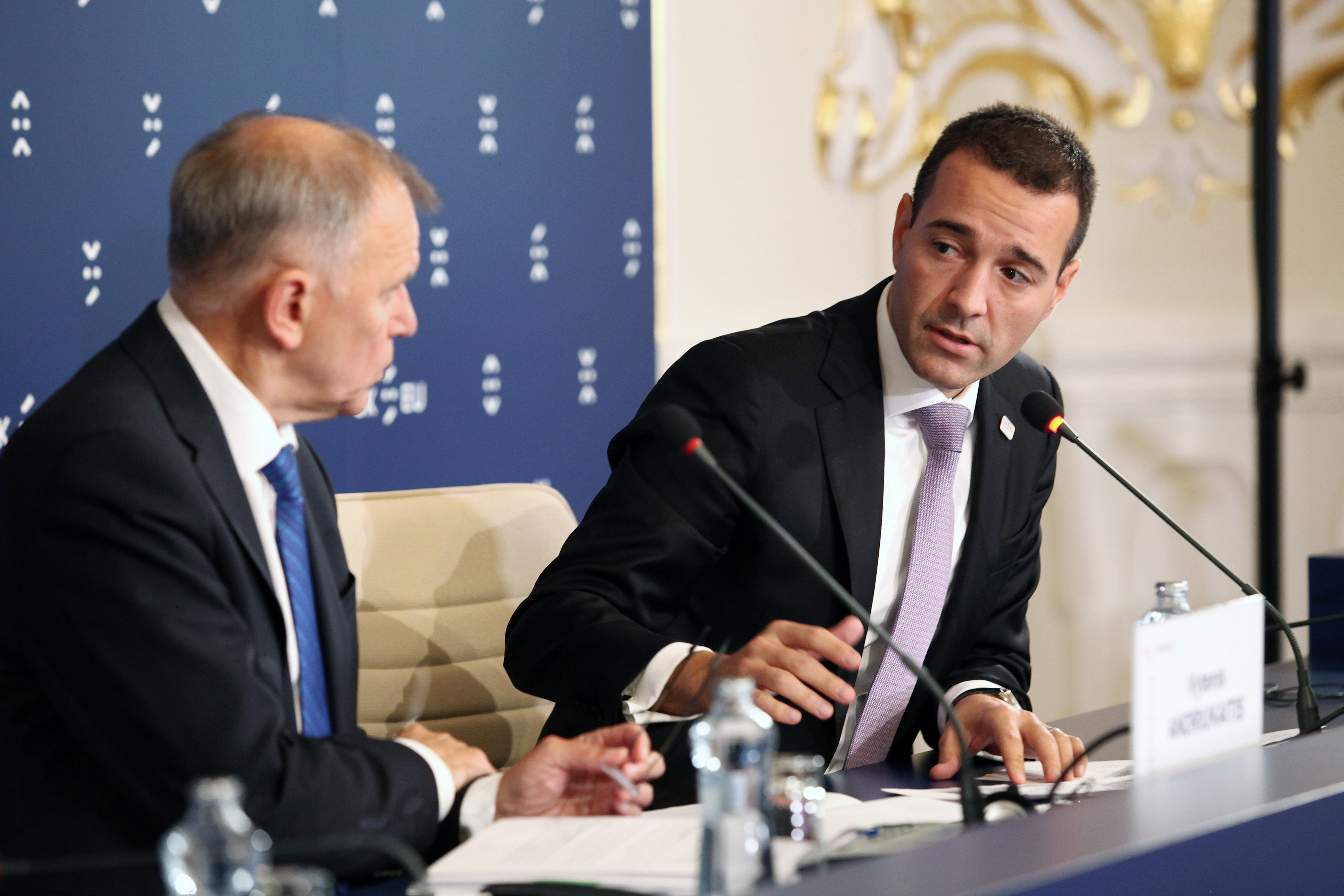 Slovakia, Mr. Tomas Drucker, Minister of Health (R), European Commission, Mr. Vytenis Andriukaitis, Commissioner for Health and Food Safety (L) Informal Meeting of Ministers for Health (Informal EPSCO-Health) Photo:Andrej Klizan